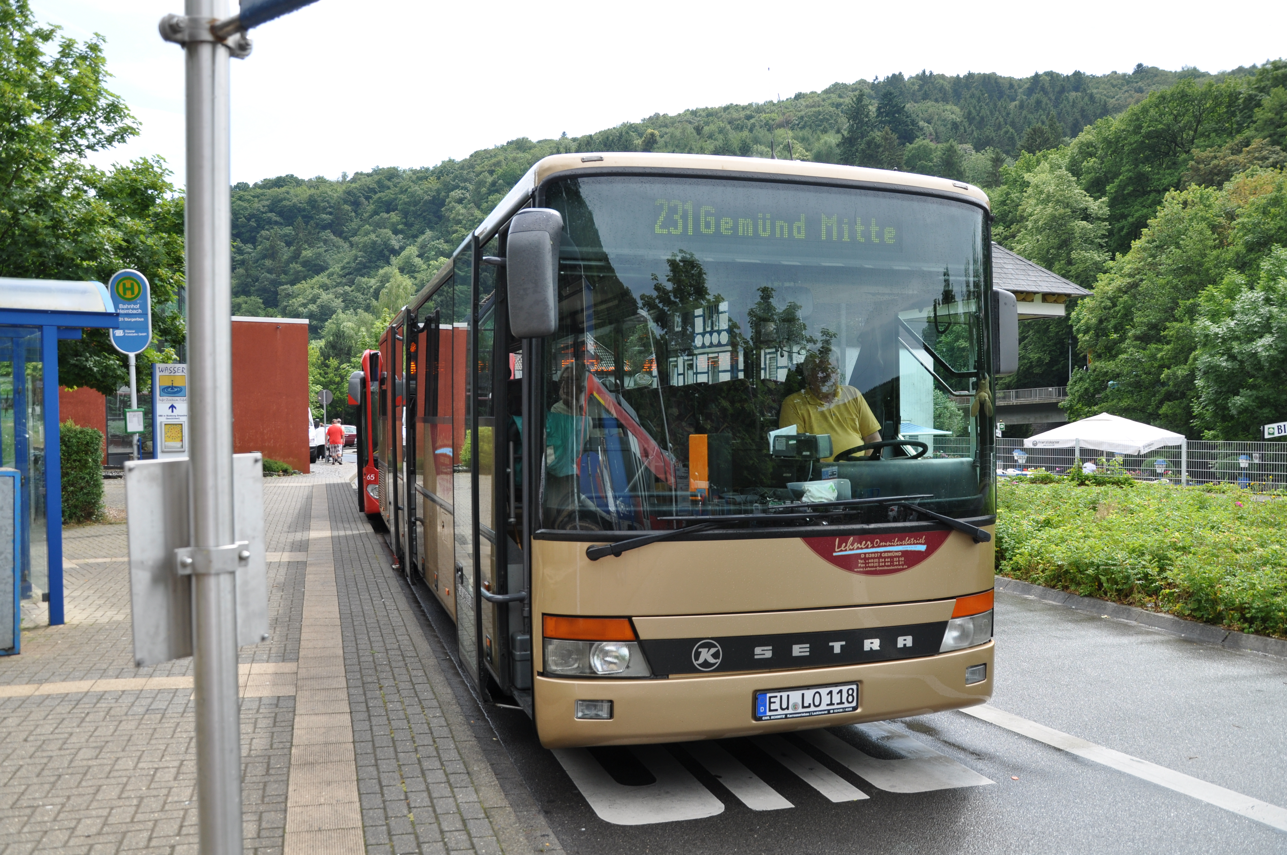 City bus in the Städteregion Aachen in the summer of 2014.